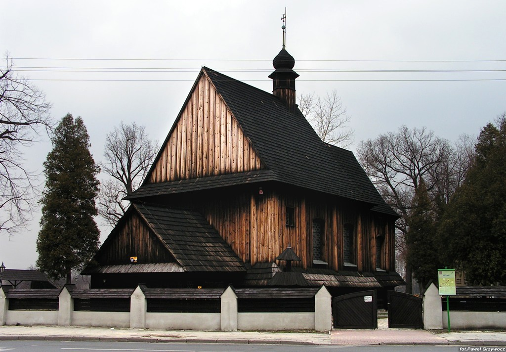 The wooden St. Valentine's church in Bieruń, Poland.